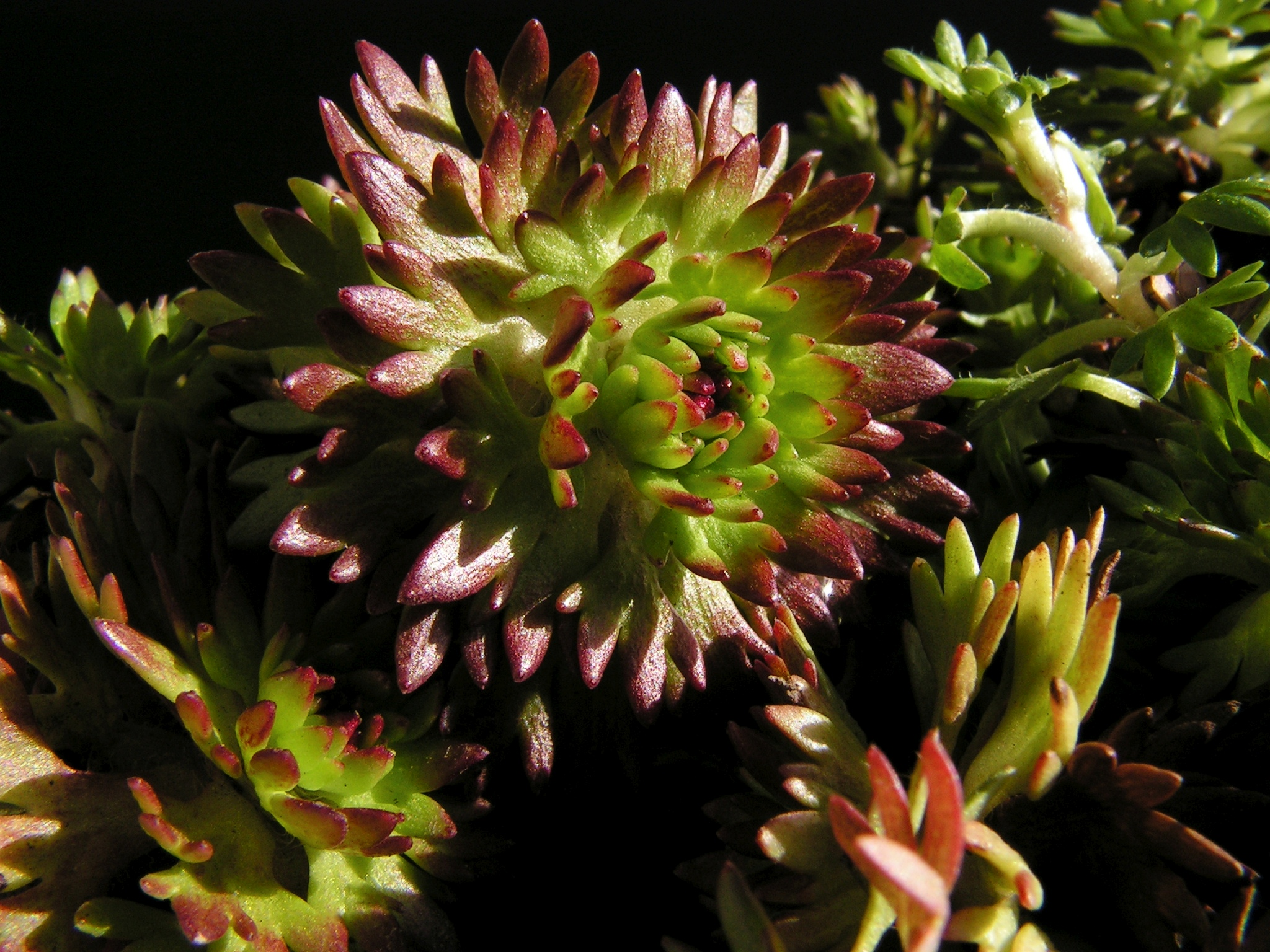 Foliage of Mossy Saxifrage.